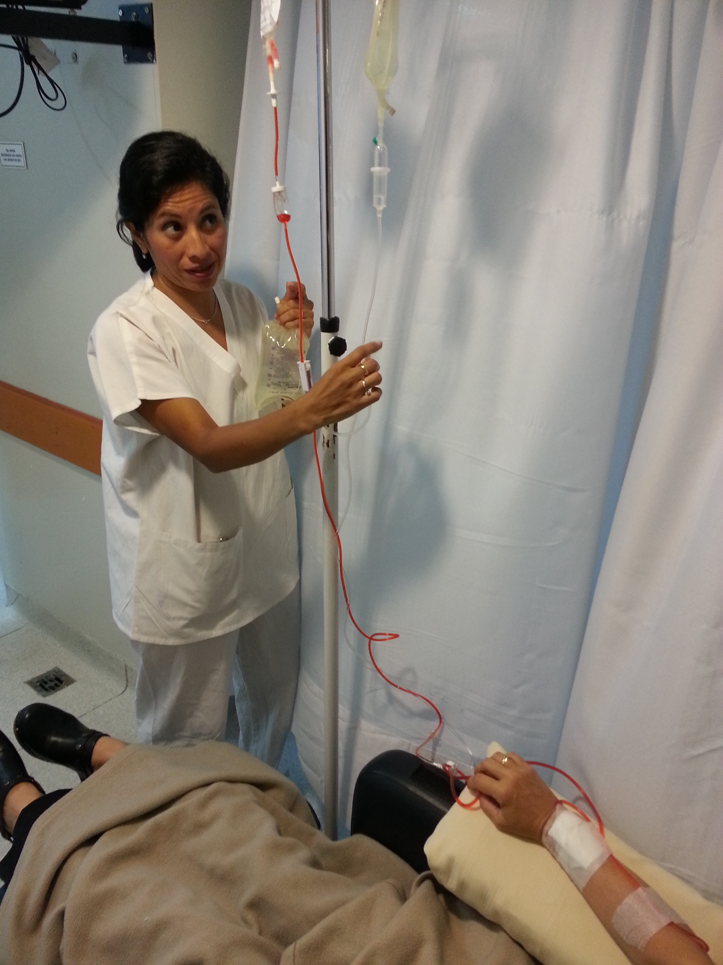 Doxorubicin intravenous administration. This drug is often used in cancer combination chemotherapy as a component of various regimes. Doxorubicin shows a characteristic red color.